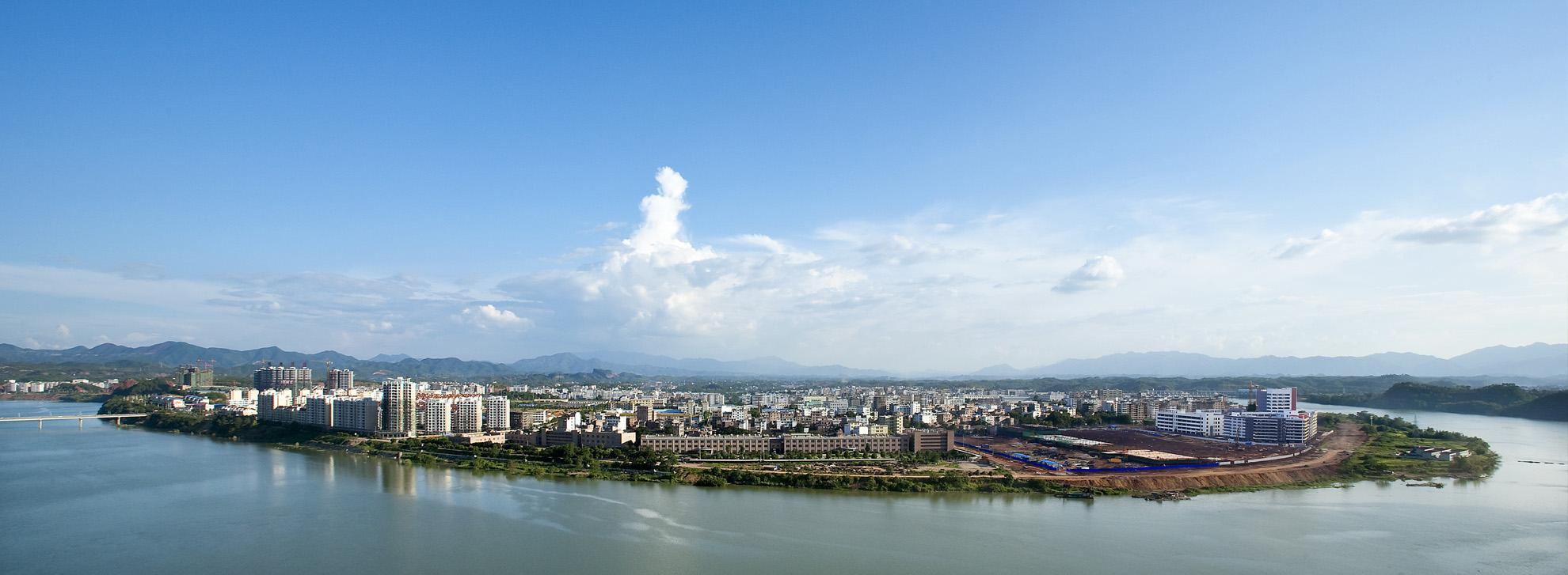 a photo of yudu city from above